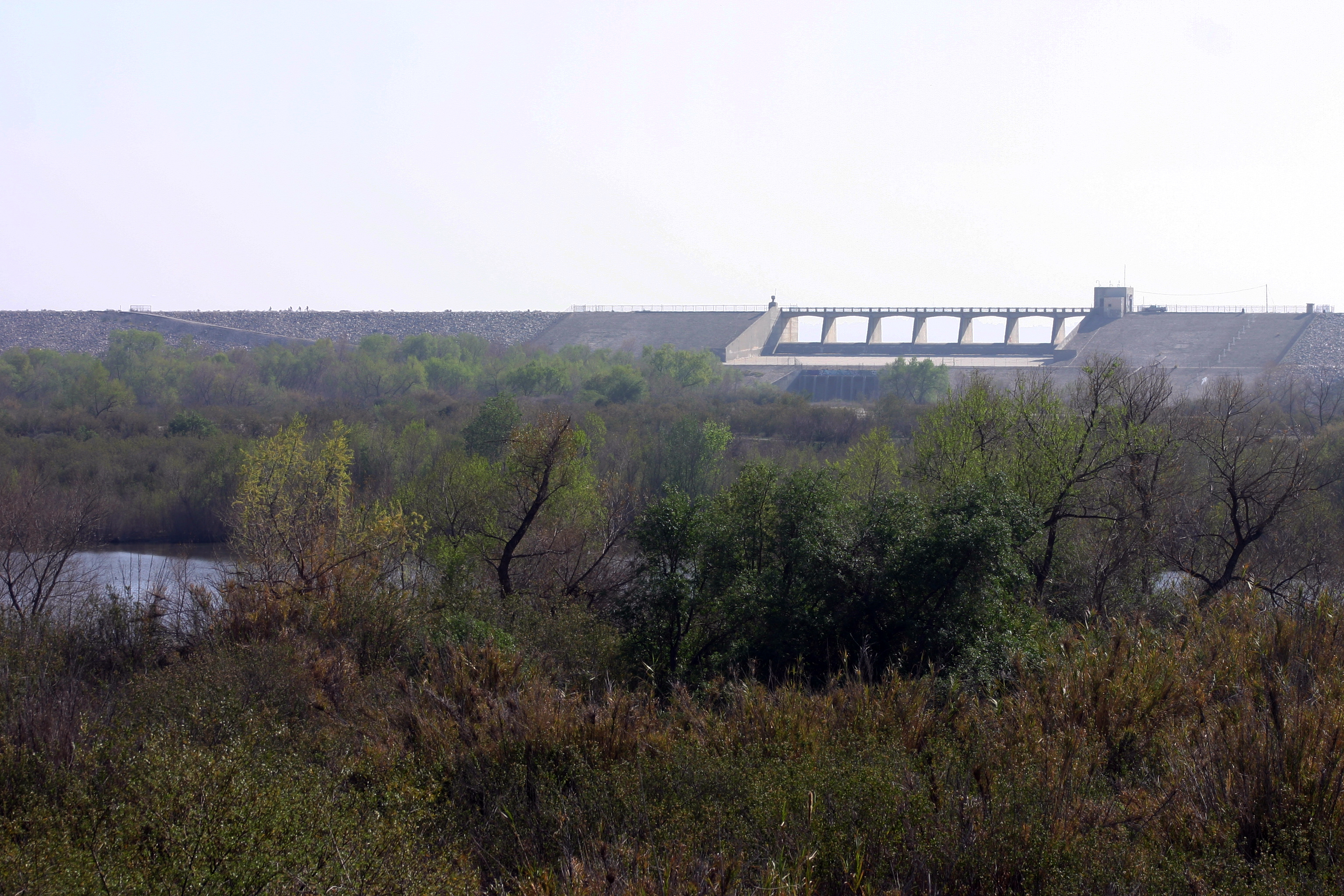 Hansen Dam and the Hansen Dam Recreation Area, an L.A. city park in the northeastern San Fernando Valley, Southern California. Dam and basin provide flood protection from the seasonal Tijunga River, a tributary of the Los Angeles River.